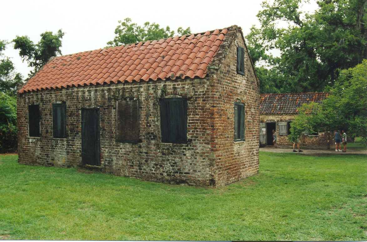 Slave Cabins at Boone Hall Plantation